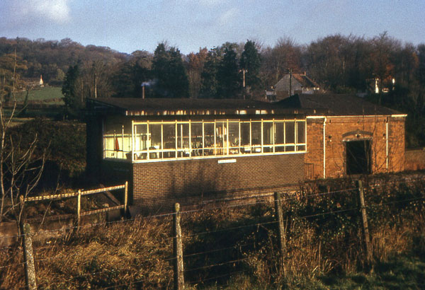 Flax Bourton Signal Box, November 1971